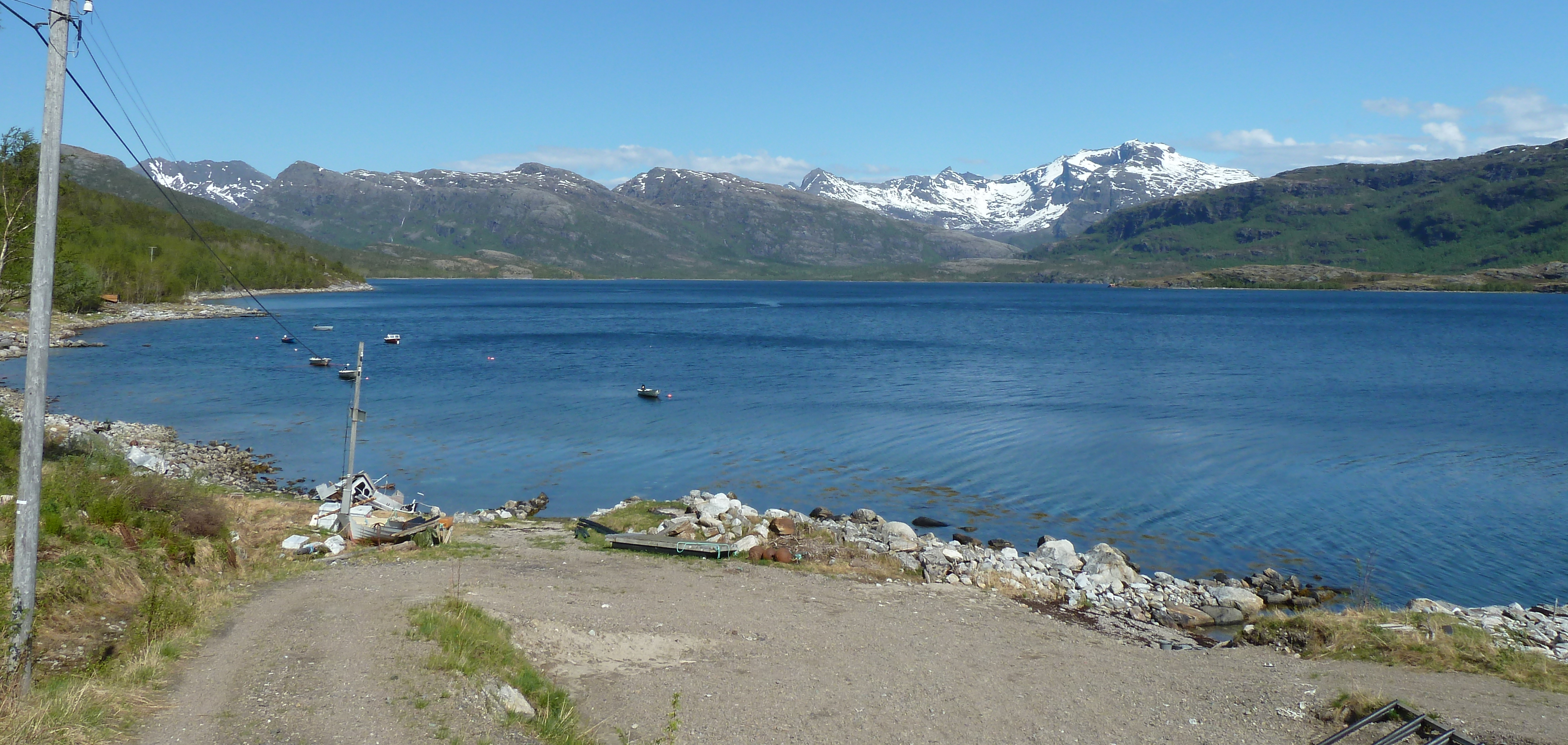 Balkjosen in Steigen, Nordland.